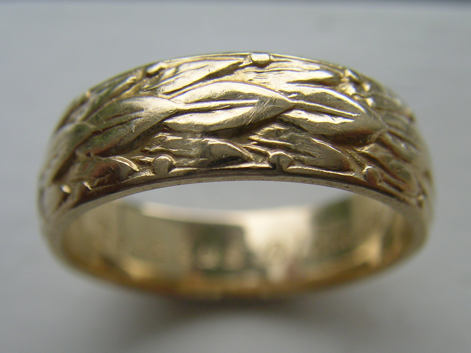 Doctoral conferment ring, Uppsala University, Sweden